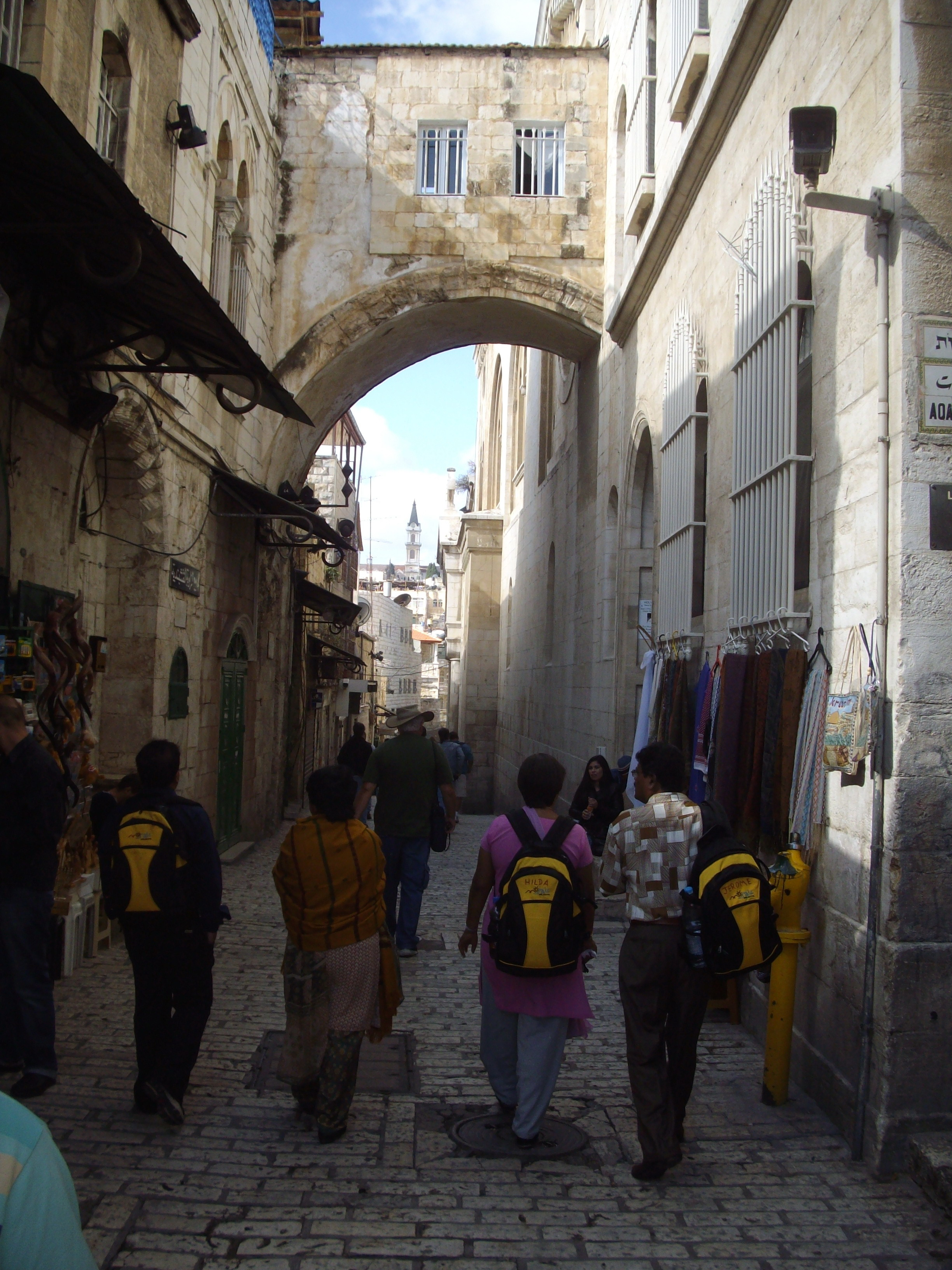 'Via Dolorosa" through Old Jerusalem's streets and churches' (Thursday 30-10-08)